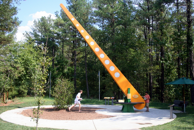 Seed tower at the North Carolina Museum of Life and Science, Durham, North Carolina, USA.